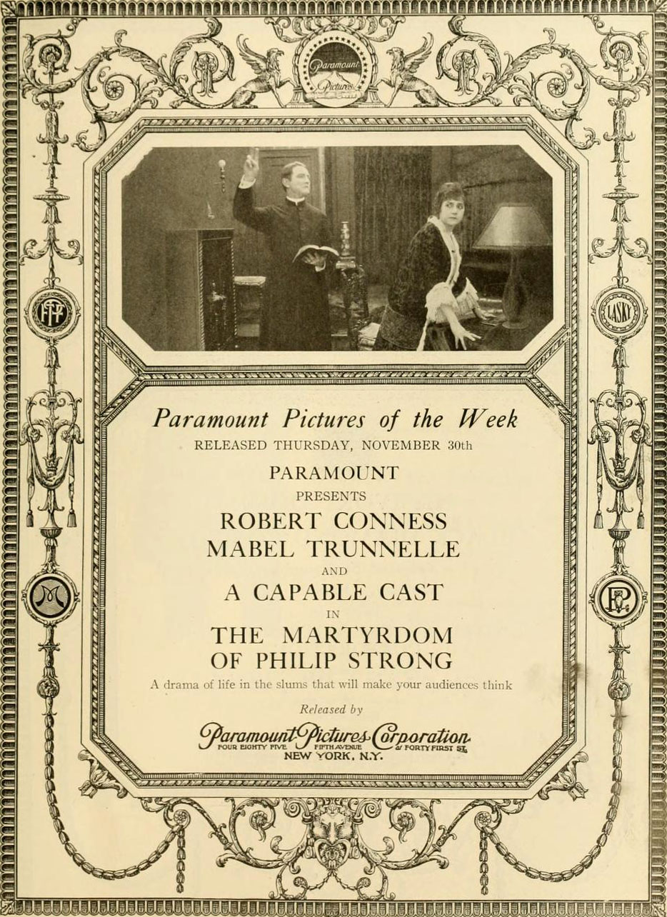 Advertisement in Moving Picture World for the American film The Martyrdom of Philip Strong (1916) with Robert Conness and Mabel Trunnelle.